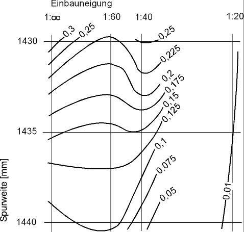 The figure shows the equivalent conicity as a function of rail slope and lateral shift y of the wheel set from the neutral position